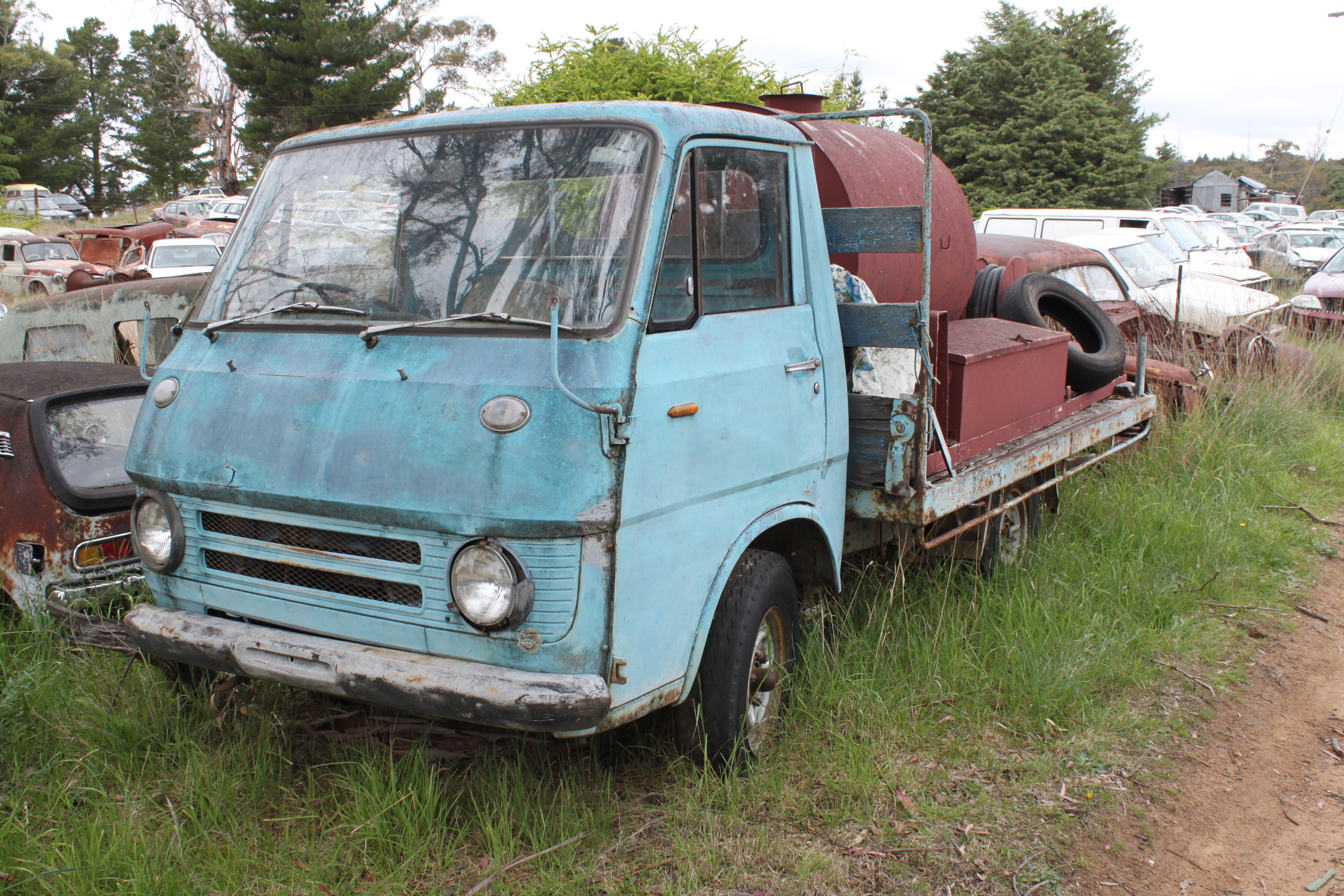 Flynn's Wrecking Yard, Cooma NSW